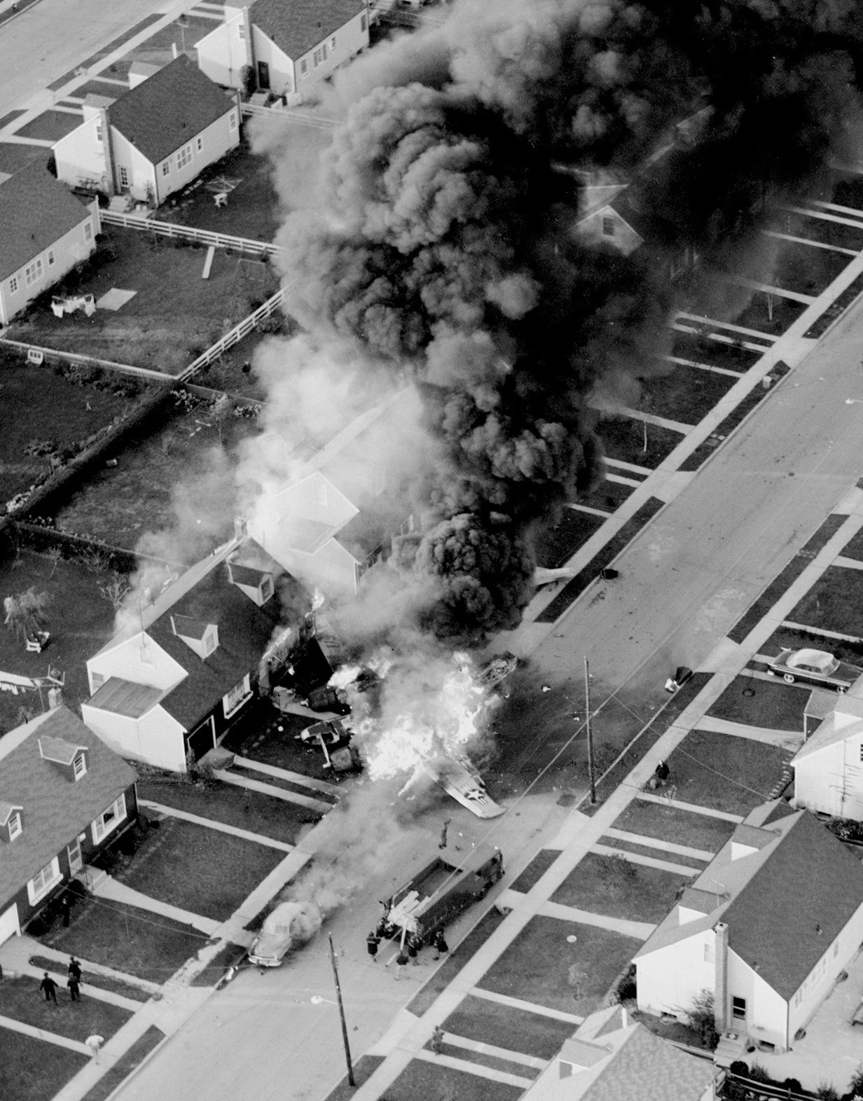 "Bomber Crashes in Street", photograph of the aftermath of the crash of a B-26 bomber in a residential area in East Meadow, New York. This image was singled out as an "outstanding example" of the work of the Daily News staff in their shared citation for the 1956 Pulitzer Prize for Photography.